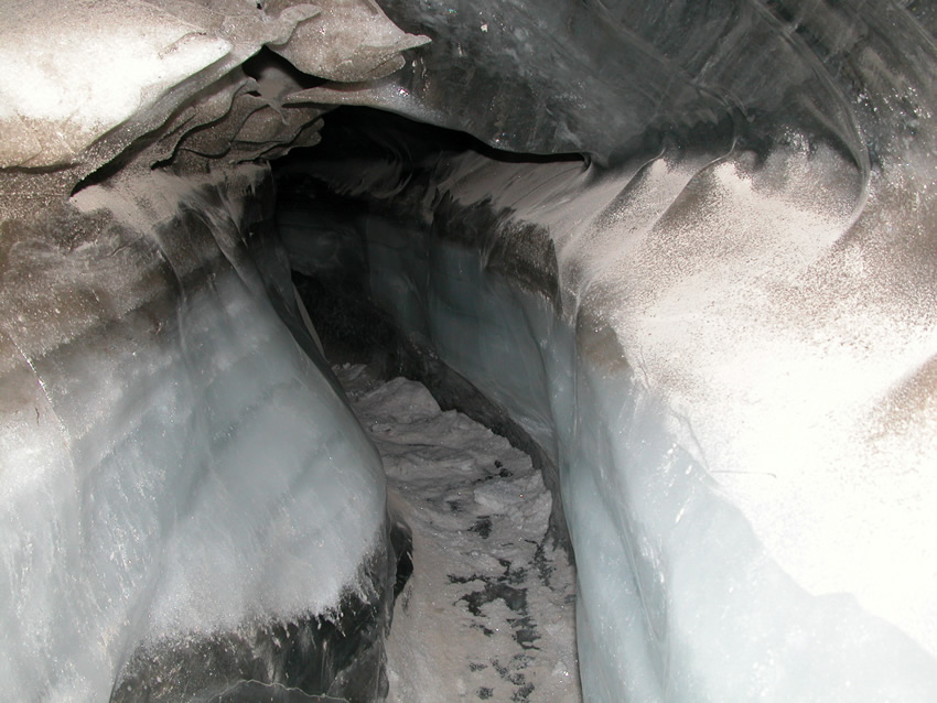 The ice cave was formed from the spring and summer melt-off from teh glacier from which it resides. It travels more than 25m back. The adventurous could then climb into another much larger cave that was the size of a house that ould be accessible through an alternative route. Photo taken in November 2004 64kms SE of Pond Inlet, nunavut at a place called Guy's Byte (Iperdjuke). Photo by Patrick B. McDermott